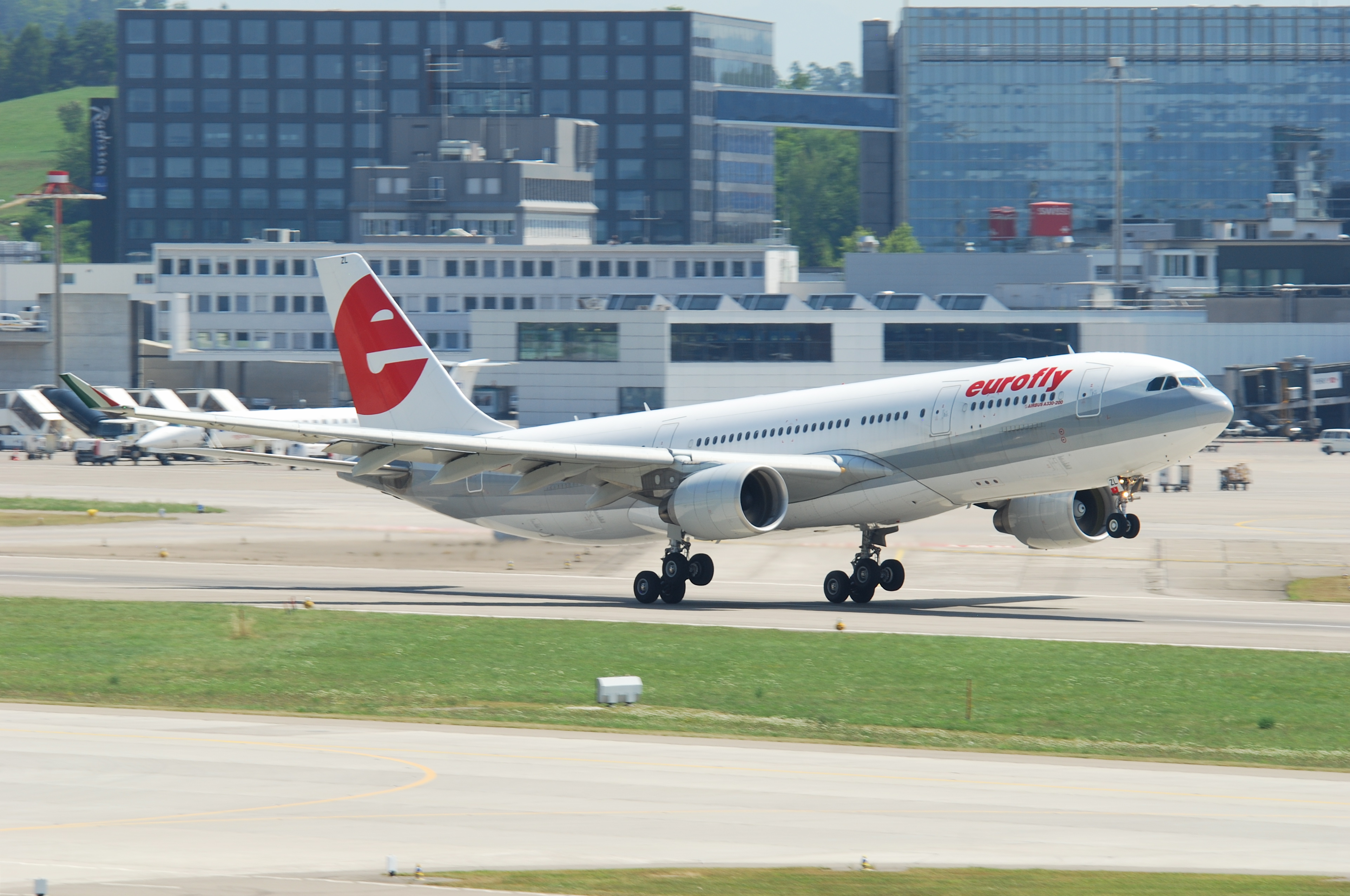 Eurofly Airbus A330-200; EI-EZL@ZRH;16.07.2010/583dl